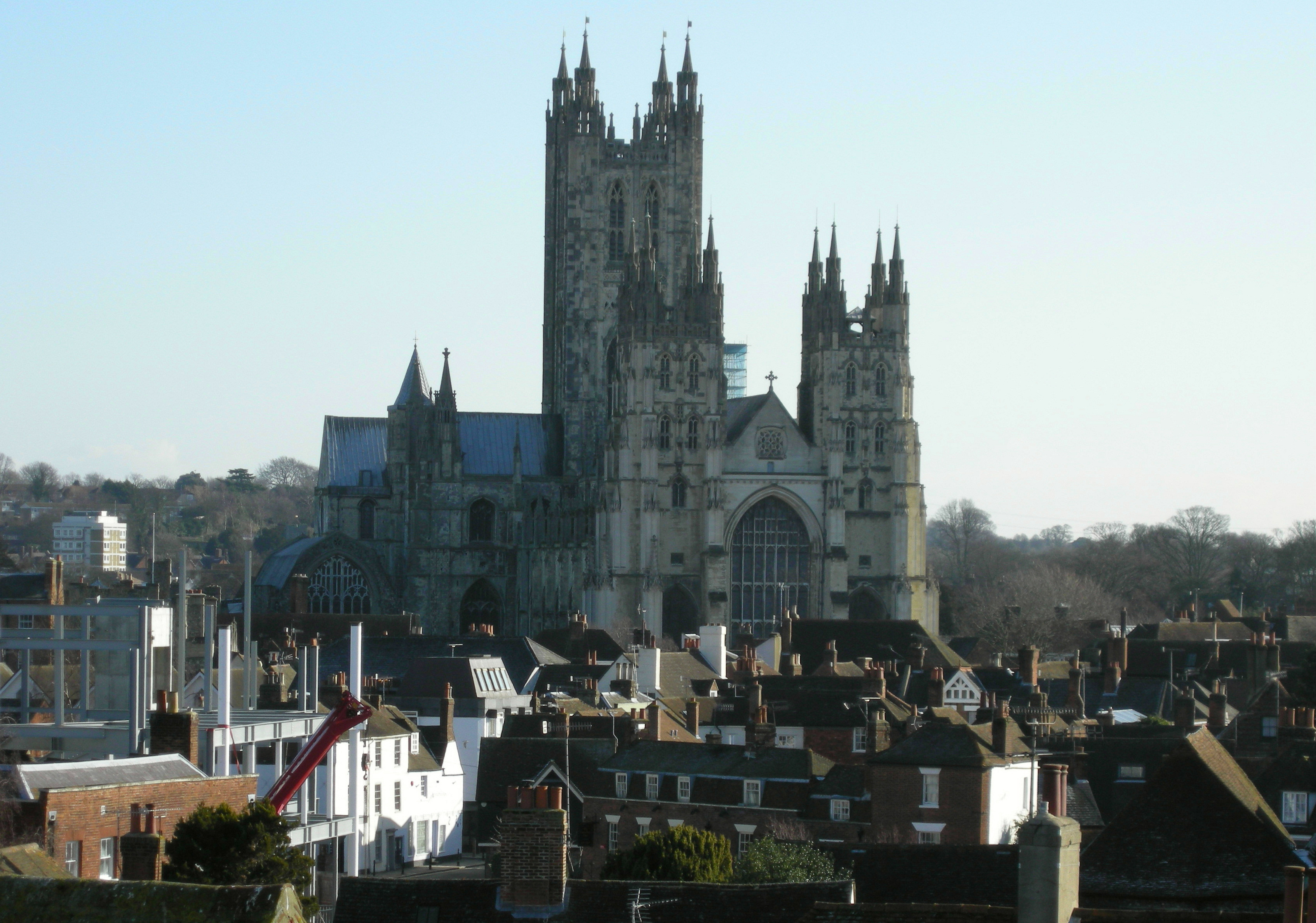 West Gate Towers and Museum, St Peter's Street, Canterbury, Kent. View east to Canterbury Cathedral from roof.